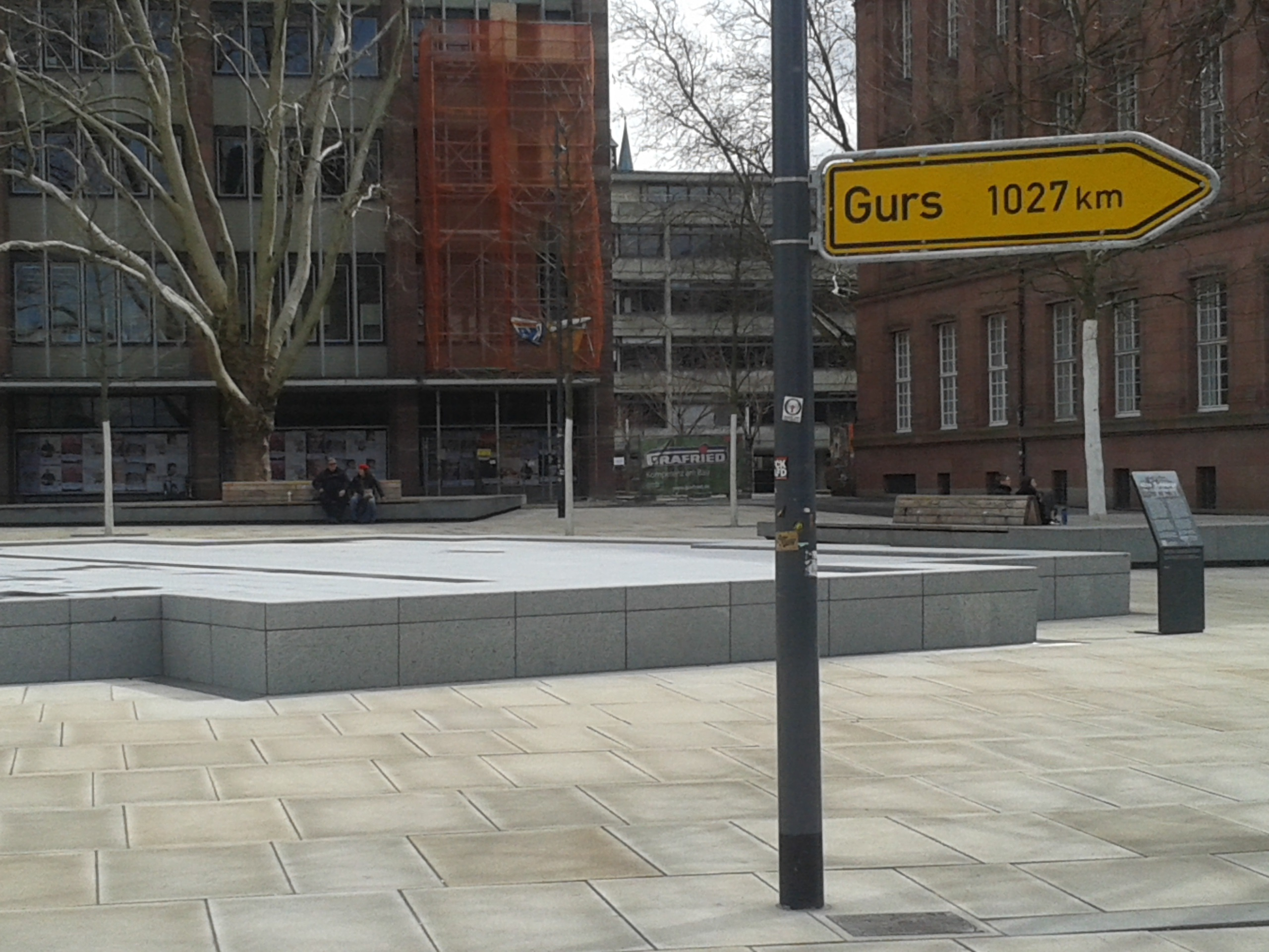 memorial plaque - freiburg-gurs - deportation of jews 1940